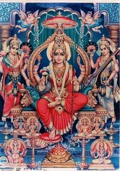 Lalita Tripura Sundari seated over Brahma Vishnu Shiva Maheswara and Sadashiva